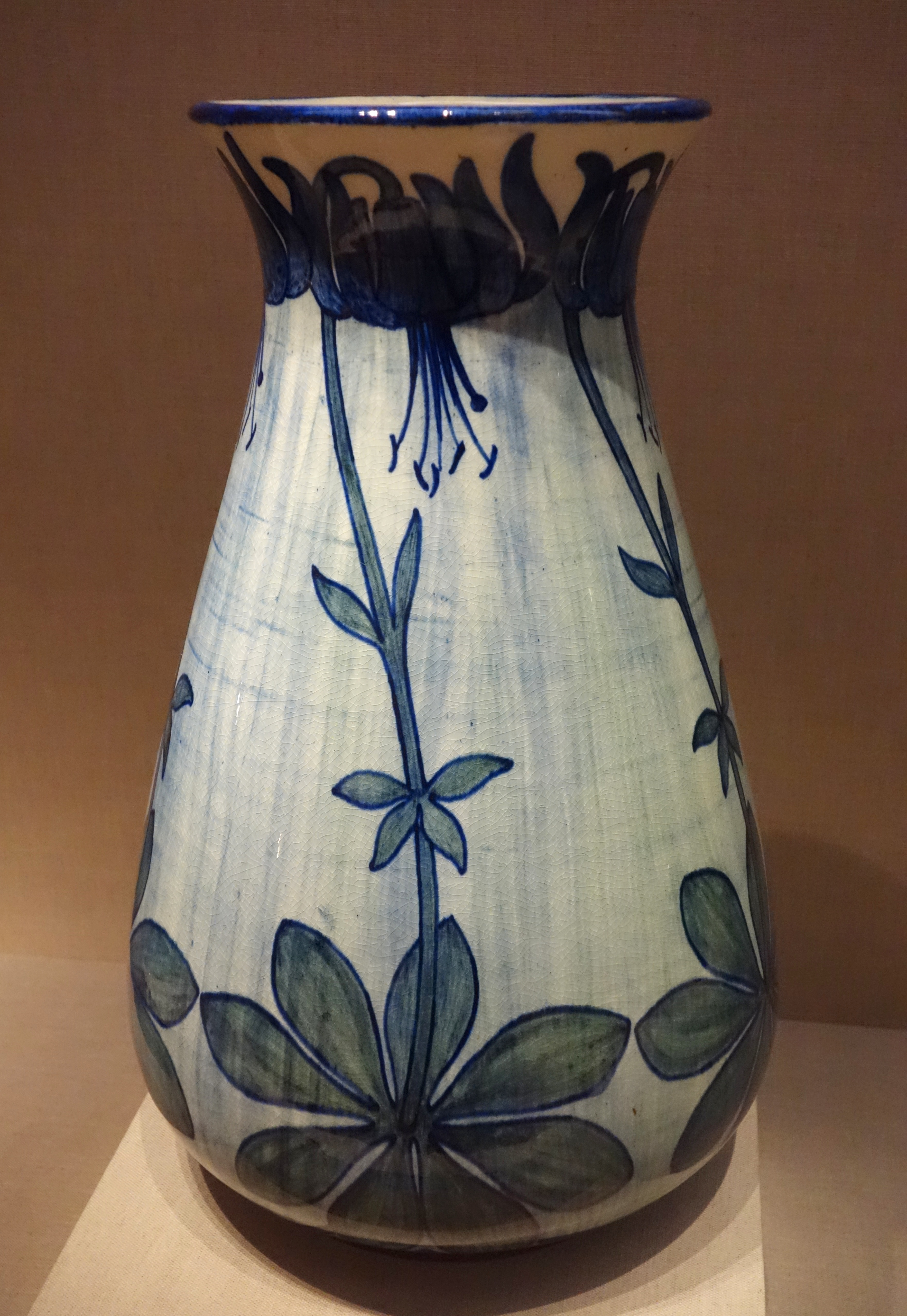 Exhibit in the De Young Museum, San Francisco, California, USA. This artwork is in the public domain because the artist died more than 70 years ago.